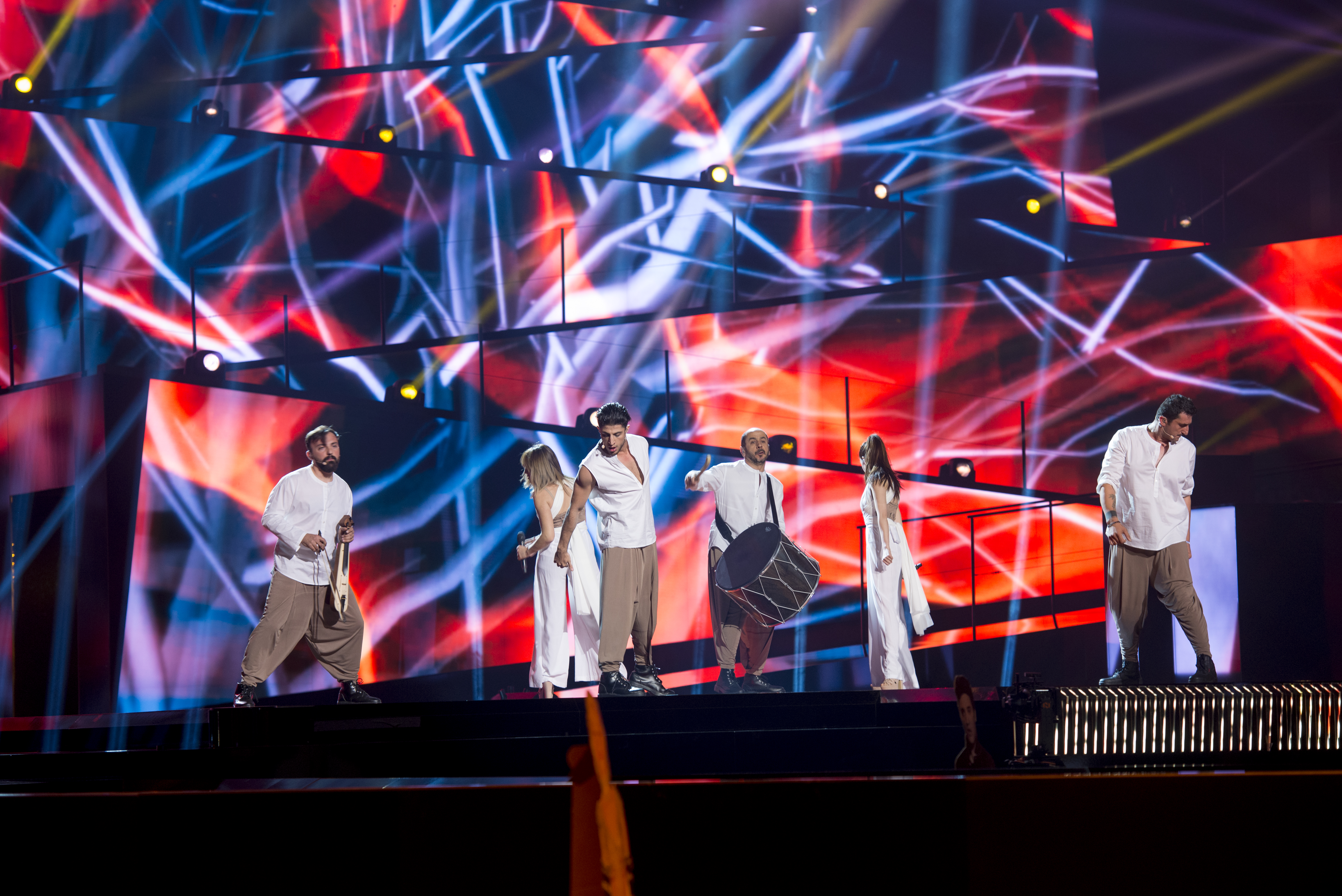 Argo representing Greece with the song "Utopian Land" during a rehearsal before the first semi final of the Eurovision Song Contest 2016 in Stockholm. (Help translate this text)